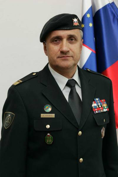 Bojan Pograjc